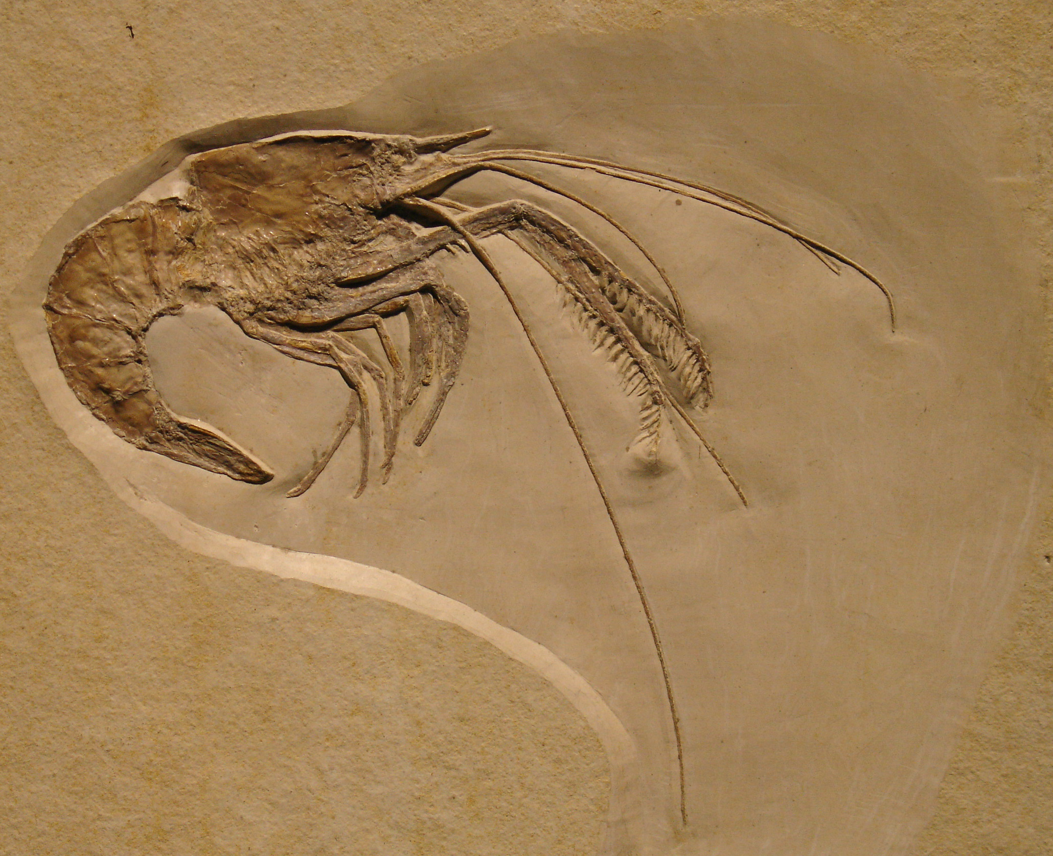 Aeger elegans - fossil. The exhibit from the Museum of Natural History in Berlin (Museum für Naturkunde)